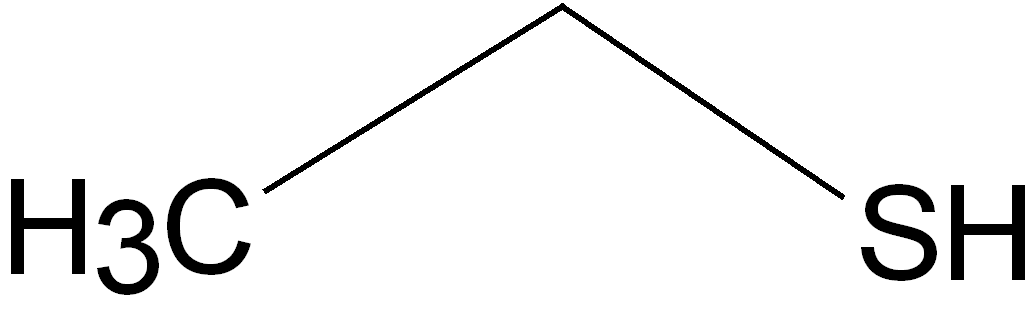 chemical formula of ethane thiol, ethyl mercaptan